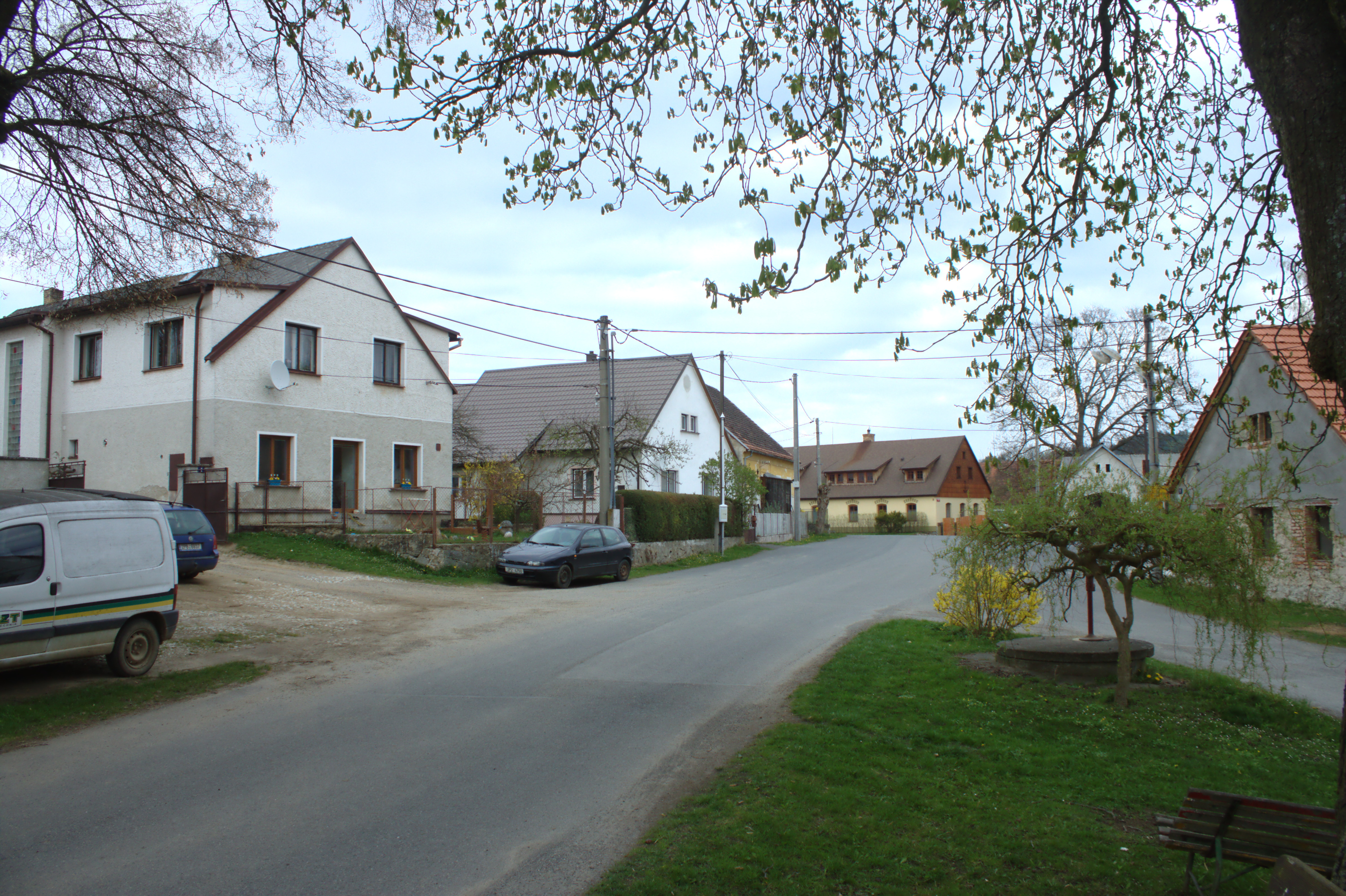 Building at the main common in the village of Čermná, Plzeň Region, CZ